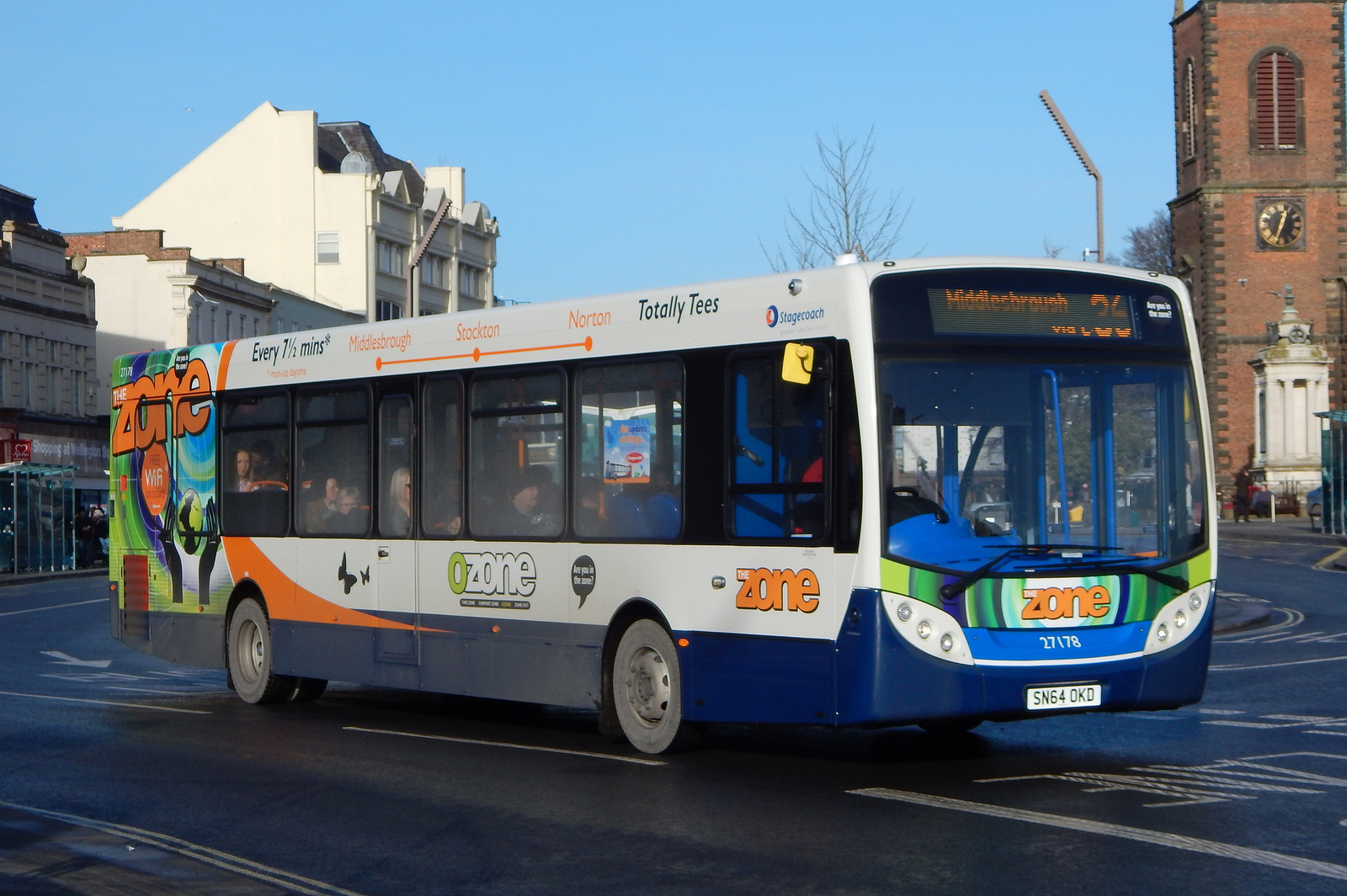 Stagecoach North East ADL Dennis Enviro 300 27178 SN64OKD is pictured here in Stockton while operating service 36.